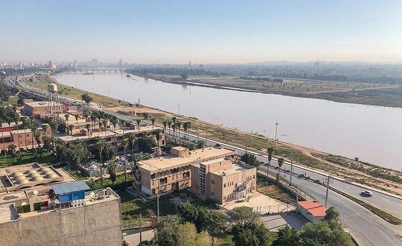 زمین نفس می کشد